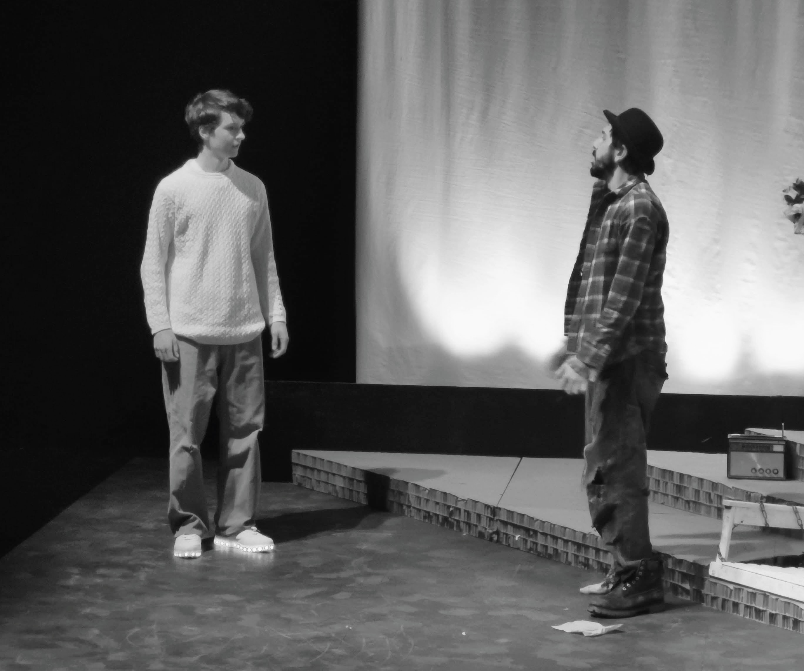 Estragon and the boy in dialogue in a student production of Waiting for Godot at the University of Chicago